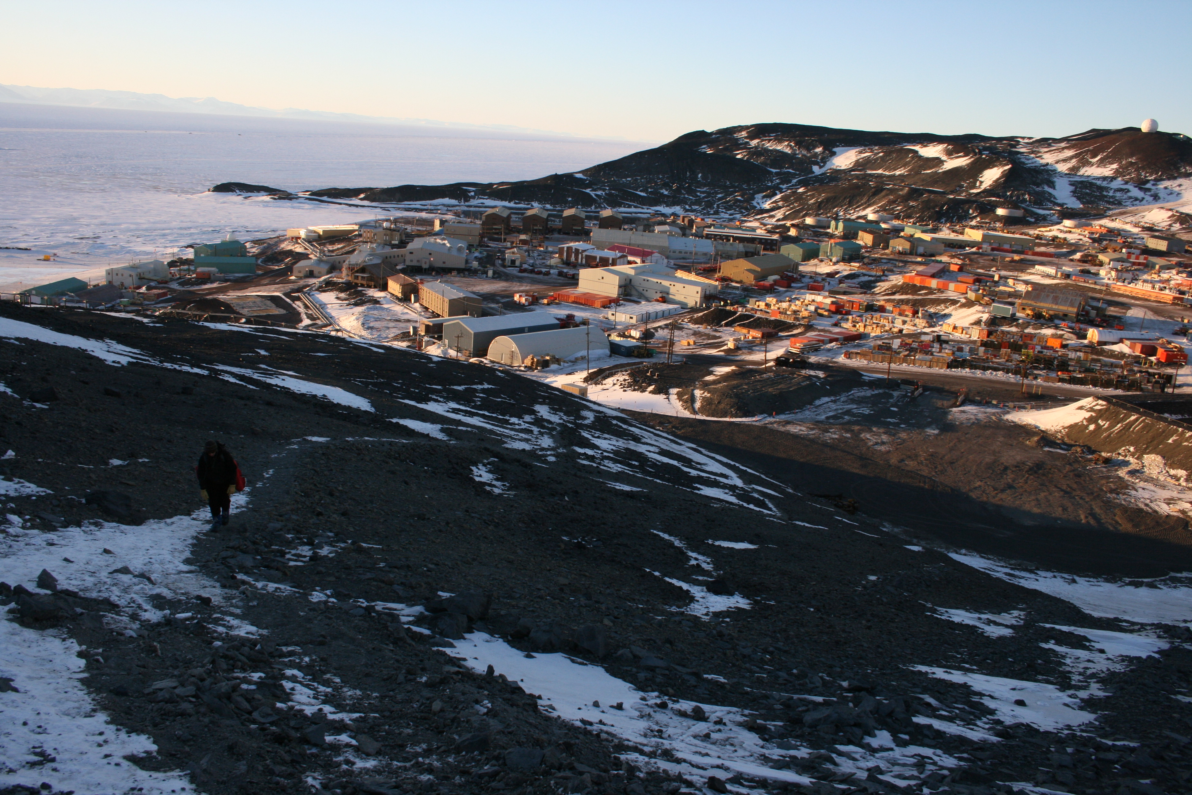 i went on a hike up Ob (observation) Hill with a few of the guys from work (tyler, carl, and severin). it was SUCH a gorgeous day. you can see almost all of McMurdo in the distance on this one.